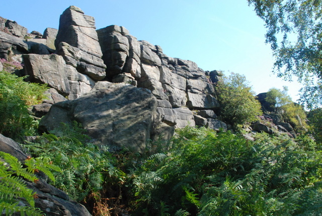 Birchen Edge below the Trig Point Classic millstone grit - beloved by walkers and rock climbers.